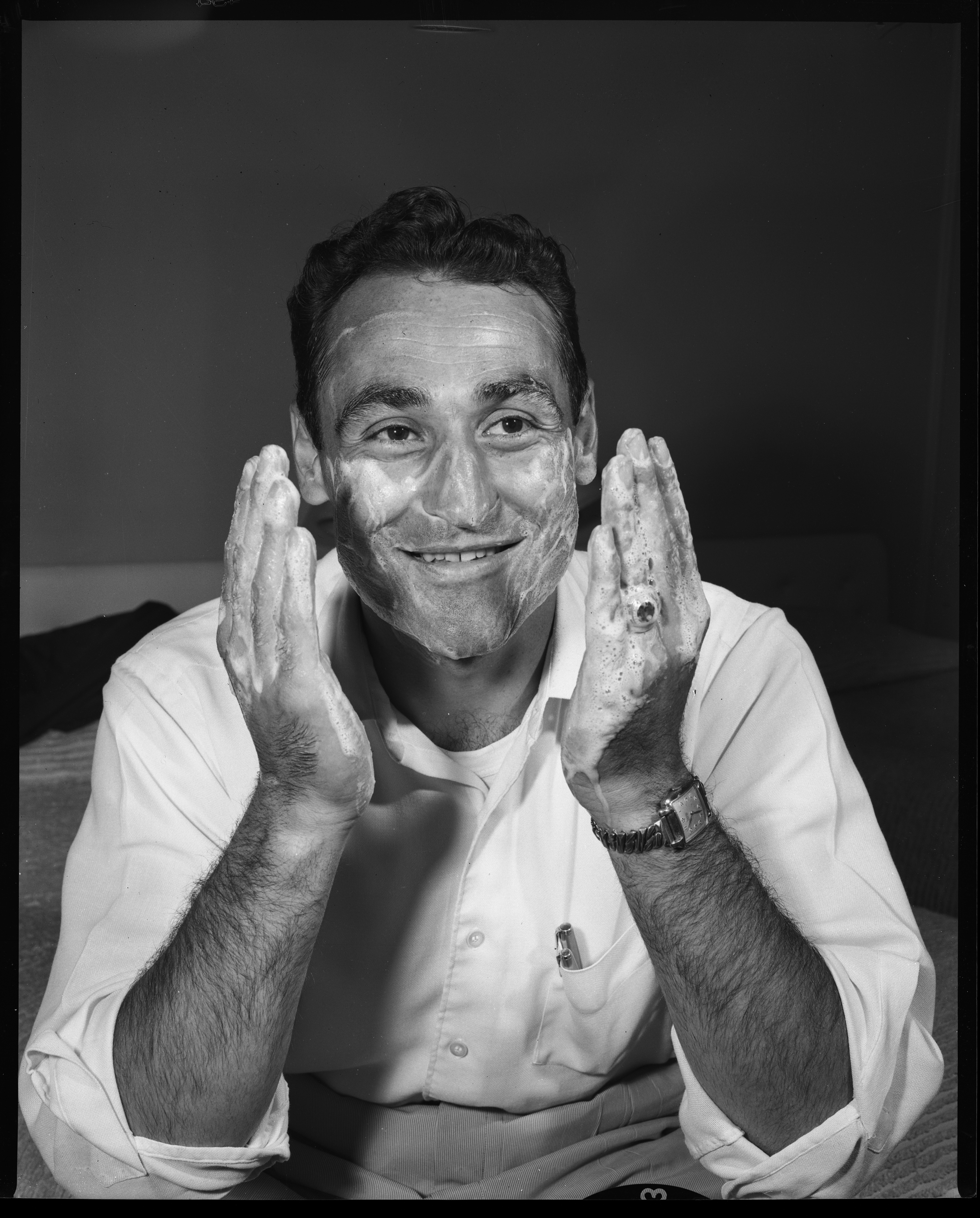 Arnold Galiffa pro football player for BC Lions VPL Accession Number: 60716 Date: July 8, 1955 Photographer/Studio: Province Newspaper Sedawie, Gordon F. Topic: Football players Organization: B.C. Lions Football Club Location: British Columbia More information on our historical photograph collection